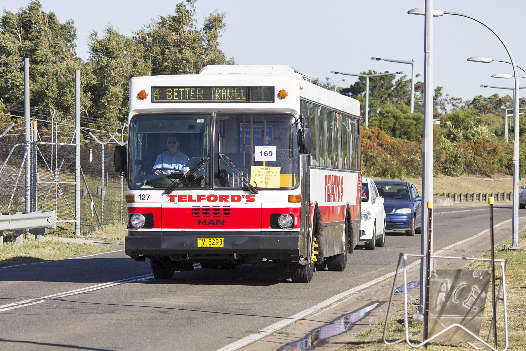 Telford's (TV 5293) Ansair bodied MAN SL200 on Ross Smith Ave at Sydney Airport.